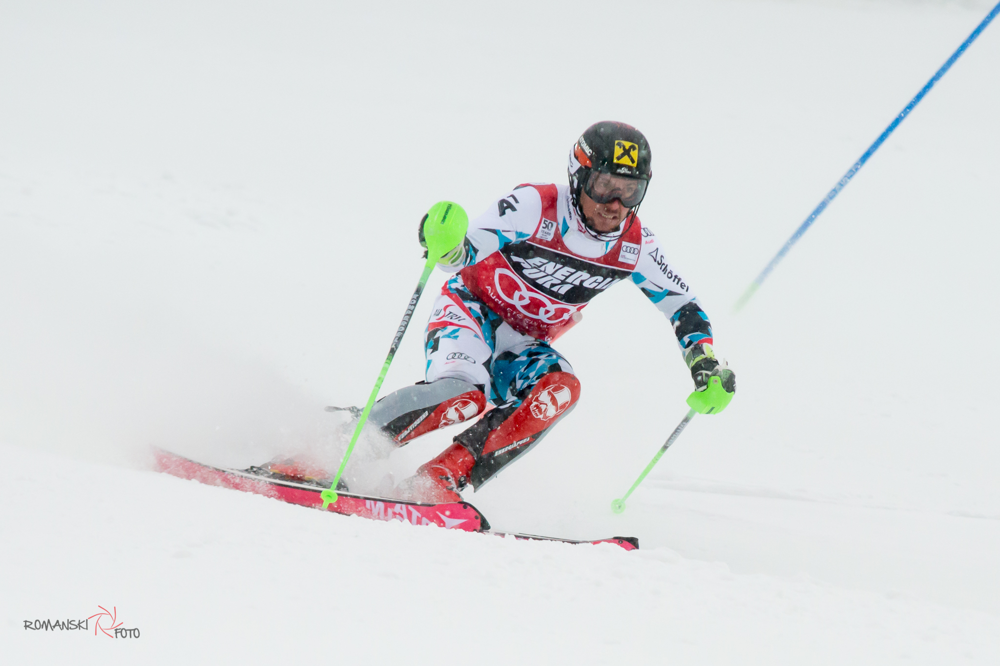 Marcel Hirsher